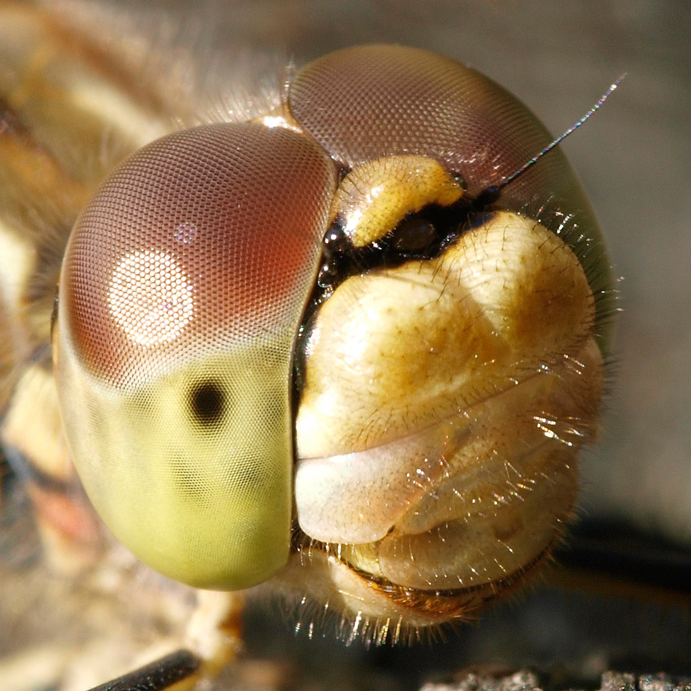 Head of a European dragonfly: Sympetrum vulgatum, female. Photoshop combination of three pics.